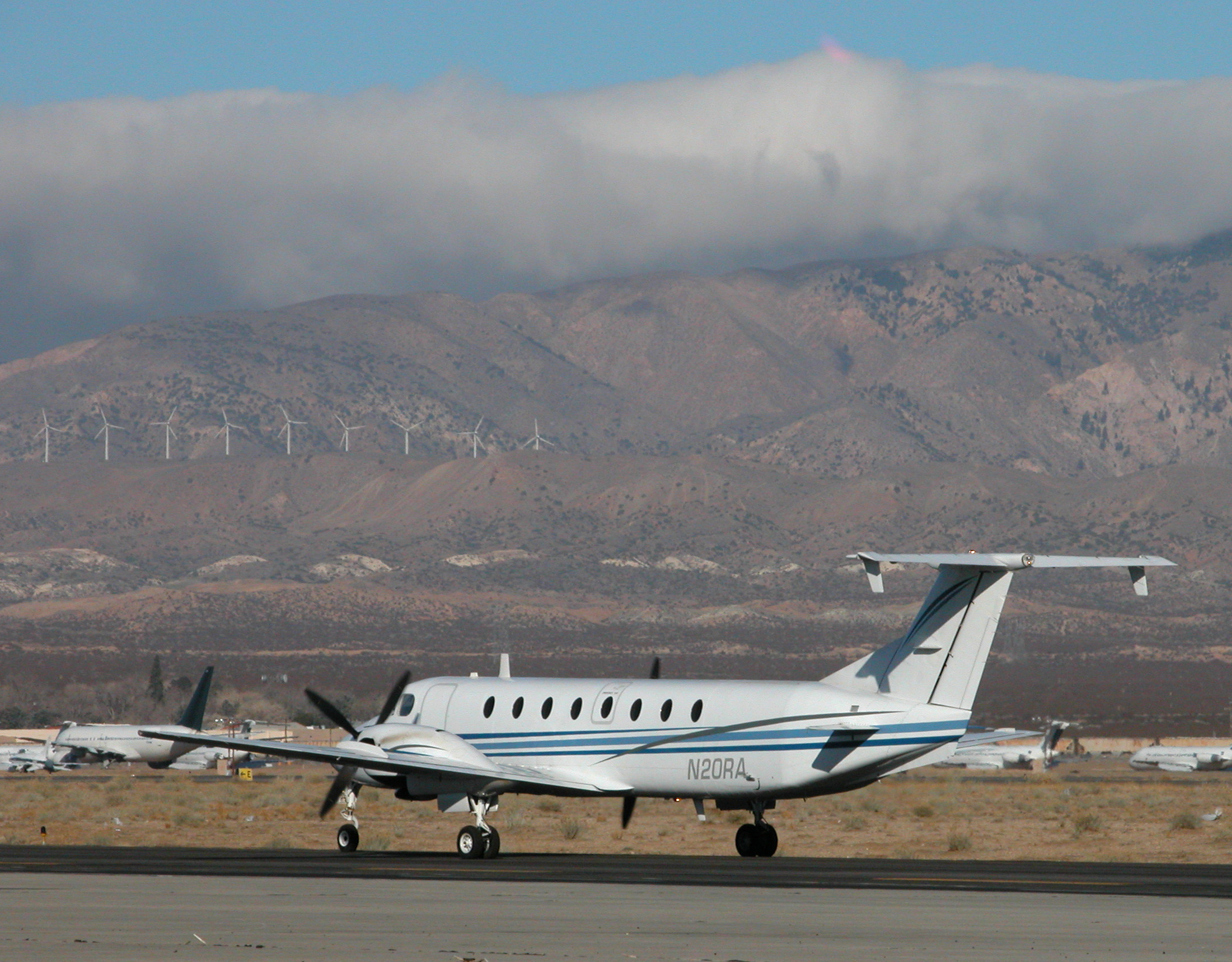 Beechcraft 1900 (s/n UB-42) (N20RA) owned by the U.S. Air Force